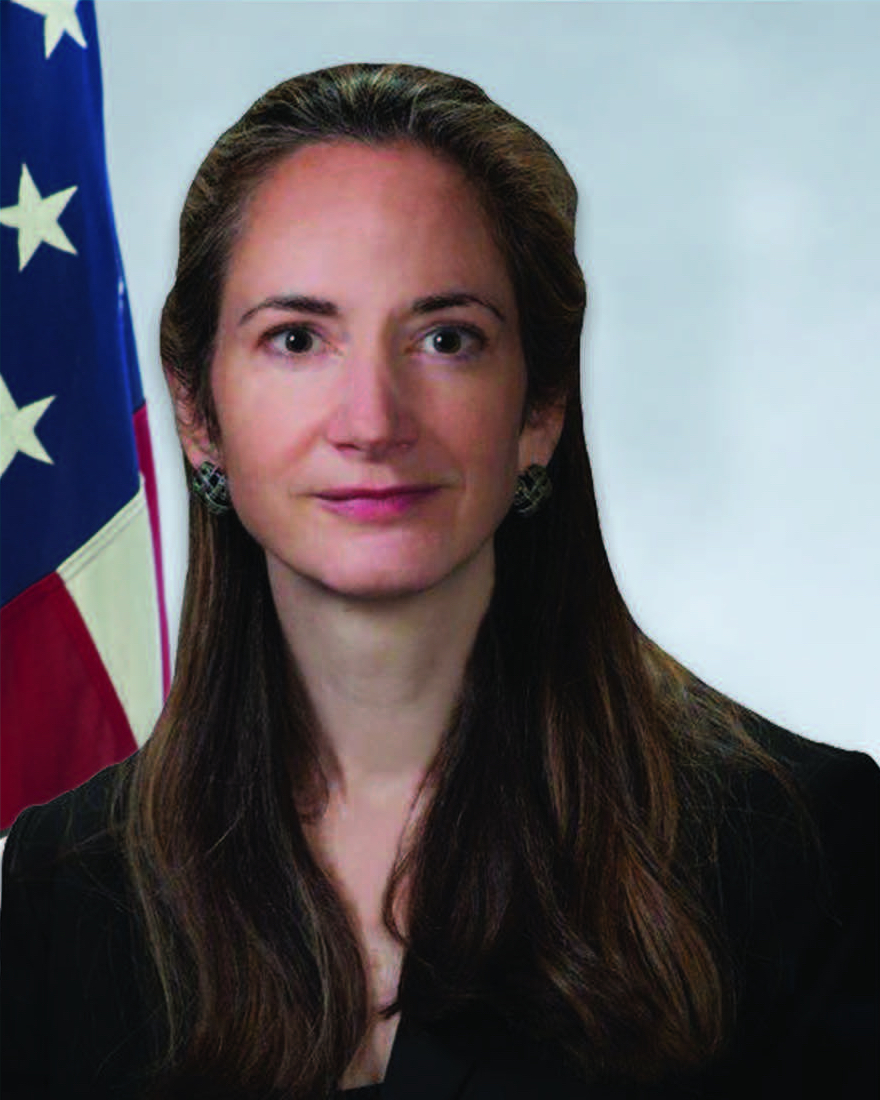 Portrait of Deputy National Security Advisor Avril Haines